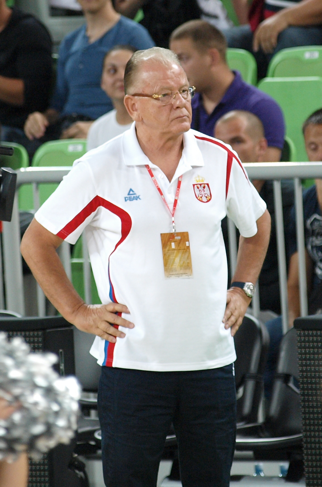 Dušan Ivković. Coaching Serbia in Adecco finals 2011